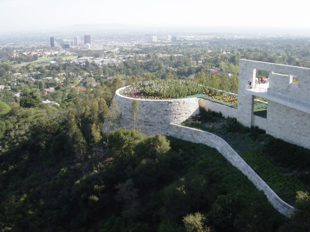 Cactus Garden perched on the edge of the Getty Center, Los Angeles. Photo taken by Bobak Ha'Eri. March 19, 2003. Please observe license and properly cite in use outside Wikipedia.